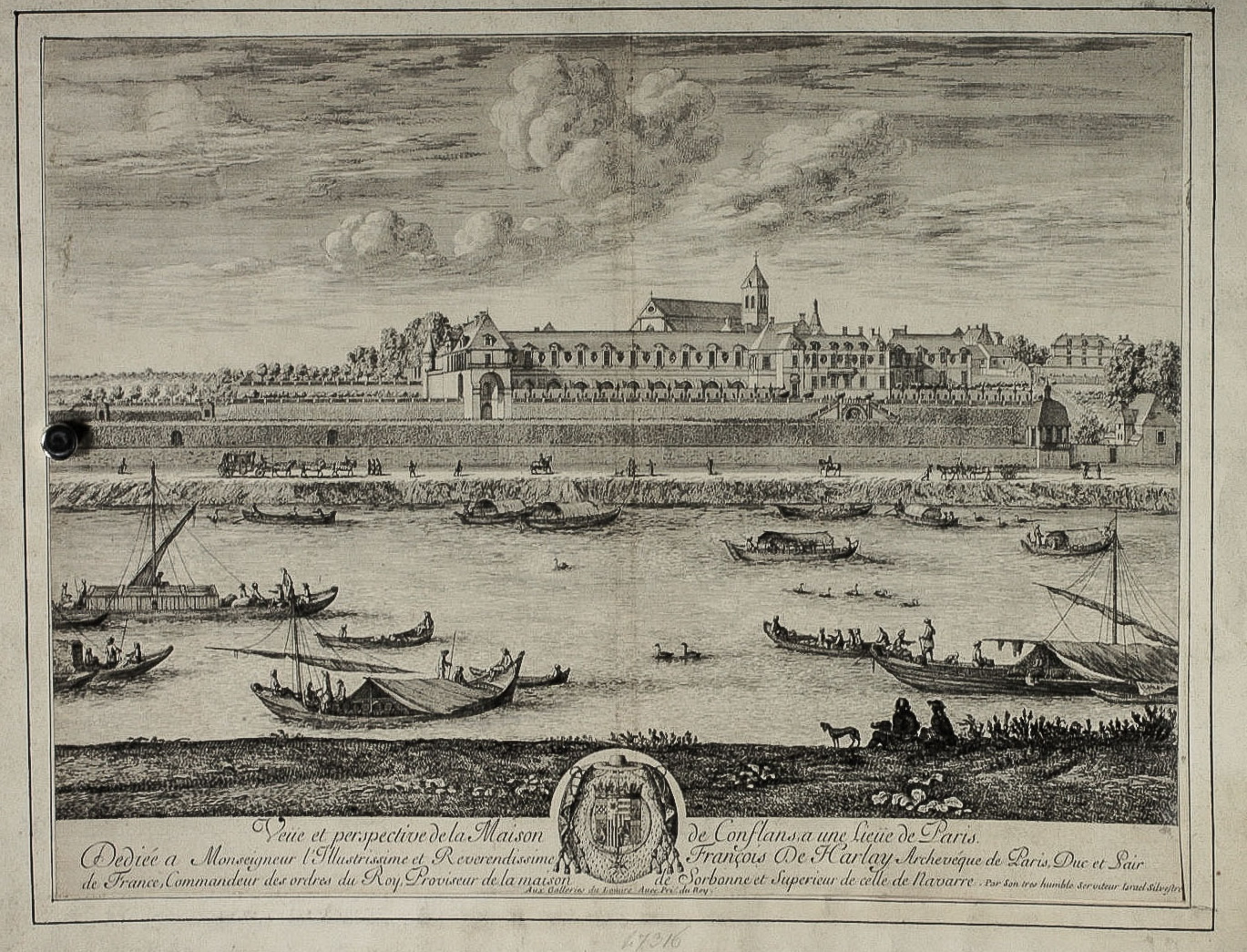 View of the Château de Conflans, acquired in 1672 by François III de Harlay, Archbishop of Paris